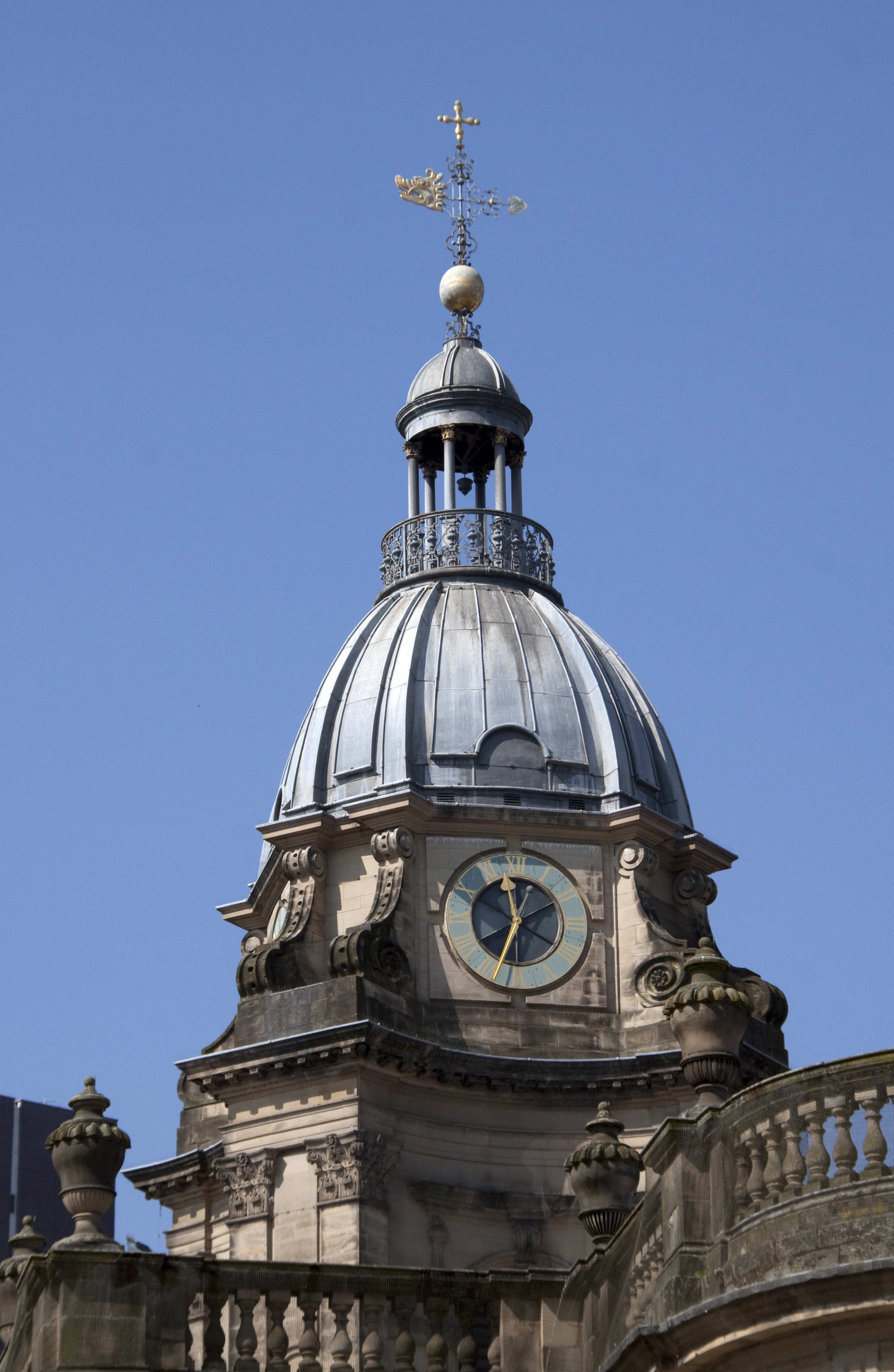 The Cathedral Church of Saint Philip is the Church of England cathedral and the seat of the Bishop of Birmingham. Built as a parish church and consecrated in 1715, St Philip's became the cathedral of the newly-formed Diocese of Birmingham in the West Midlands in 1905. St Philip's was built in the early 18th century in the Baroque style by Thomas Archer and is located on Colmore Row, Birmingham. The cathedral is a Grade I listed building